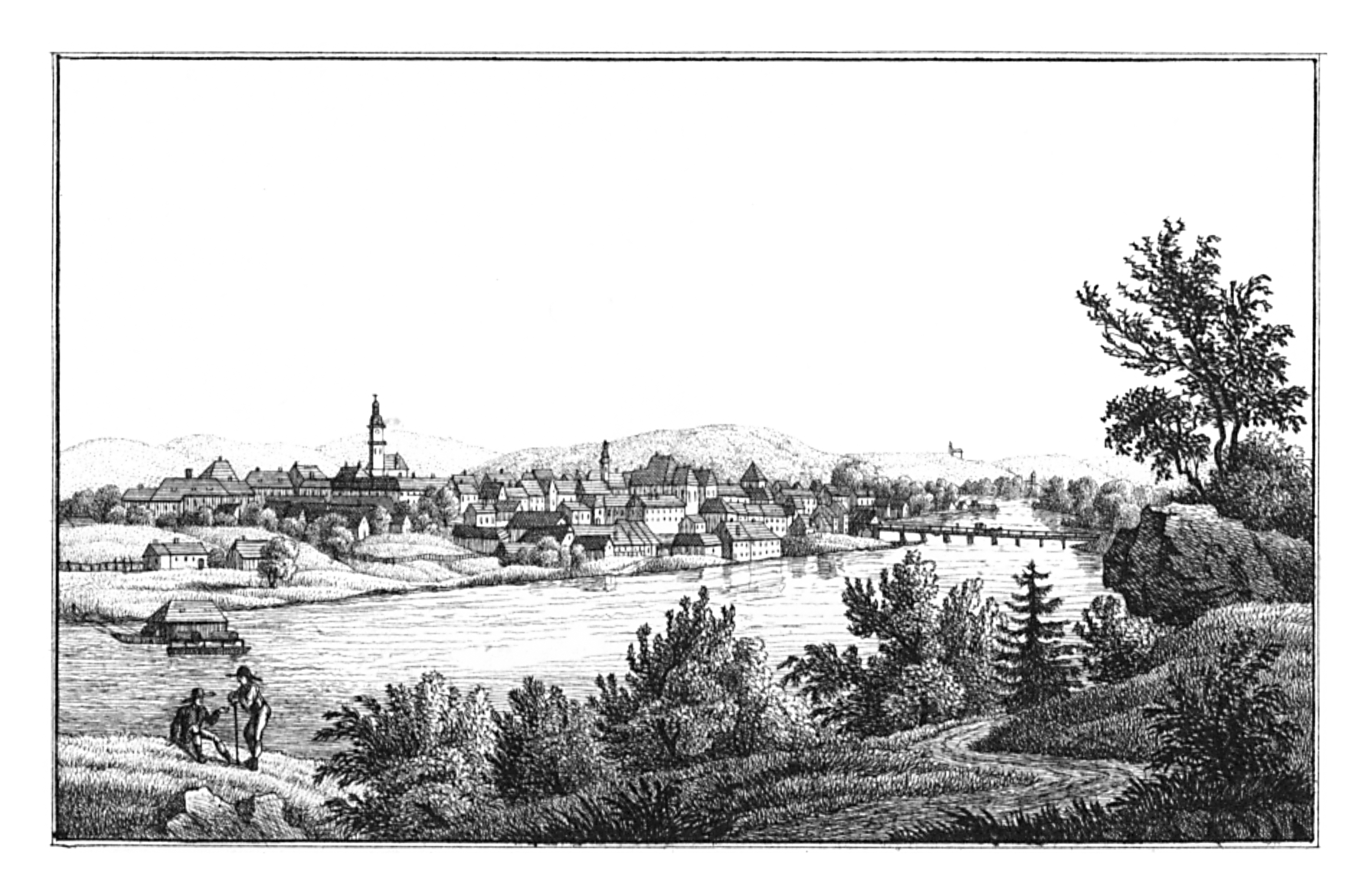 J. F. Kaiser - lithographirte Ansichten der Steyermärkischen Städte, Märkte und Schlösser, Graz 1824-1833 Joseph Franz Kaiser (1786–1859) Alternative names J. F. KaiserDescriptionAustrian printer and editorDate of birth/death 11 March 1786 19 September 1859Location of birth/death Graz (Styria) GrazAuthority control : Q1499963 VIAF: 30629353 ISNI: 0000 0000 3083 0153 LCCN: n87141671 GND: 129880159 NLP: A24960305 WorldCat creator QS:P170,Q1499963 . Scanprojekt Community Projektbudget 2012 This scan or this PDF-file was created within the GLAM-project Bookscanning, supported by Wikimedia Germany and Wikimedia Austria as a part of the community-project to capture books, documents and pictures which are not eligible to copyright or for which the copyright has expired. This document describes or depicts an object which is located in Austria today. Send requests for uncompressed scans to Hubertl. This work is in the public domain in its country of origin and other countries and areas where the copyright term is the author's life plus 100 years or less. You must also include a United States public domain tag to indicate why this work is in the public domain in the United States. This file has been identified as being free of known restrictions under copyright law, including all related and neighboring rights.